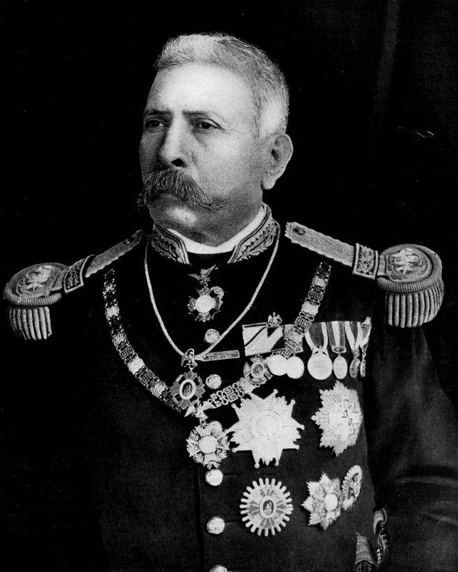 Photograph of Porfirio Díaz cropped and reuploaded by Emiya1980. Contrast increased using Photo Editor at and saturation decreased using Mac OS (Preview).